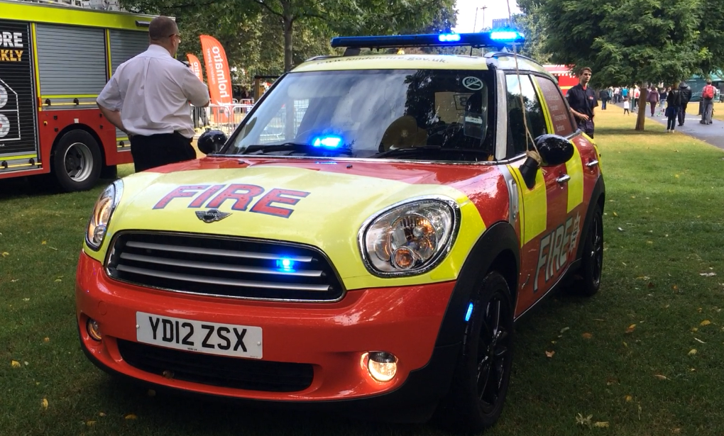 One of the LFB's Mini Coopers at the 'Safe in the city' day 2016